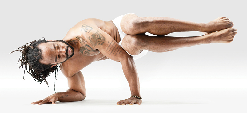 Mr-yoga-two-legged-koundinya